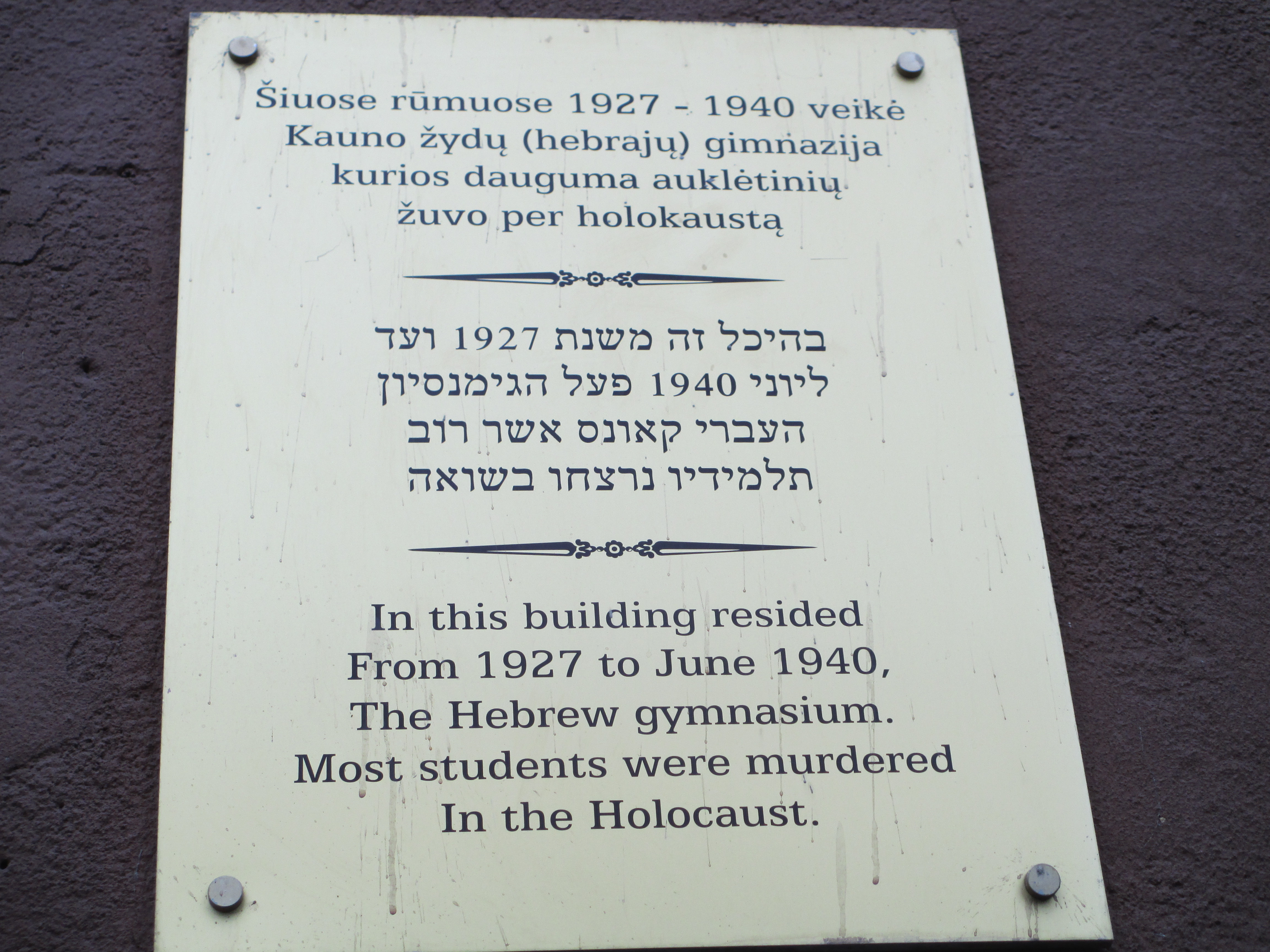 memorial plaque at the entrance to the former hebrew gymnasium in kaunas